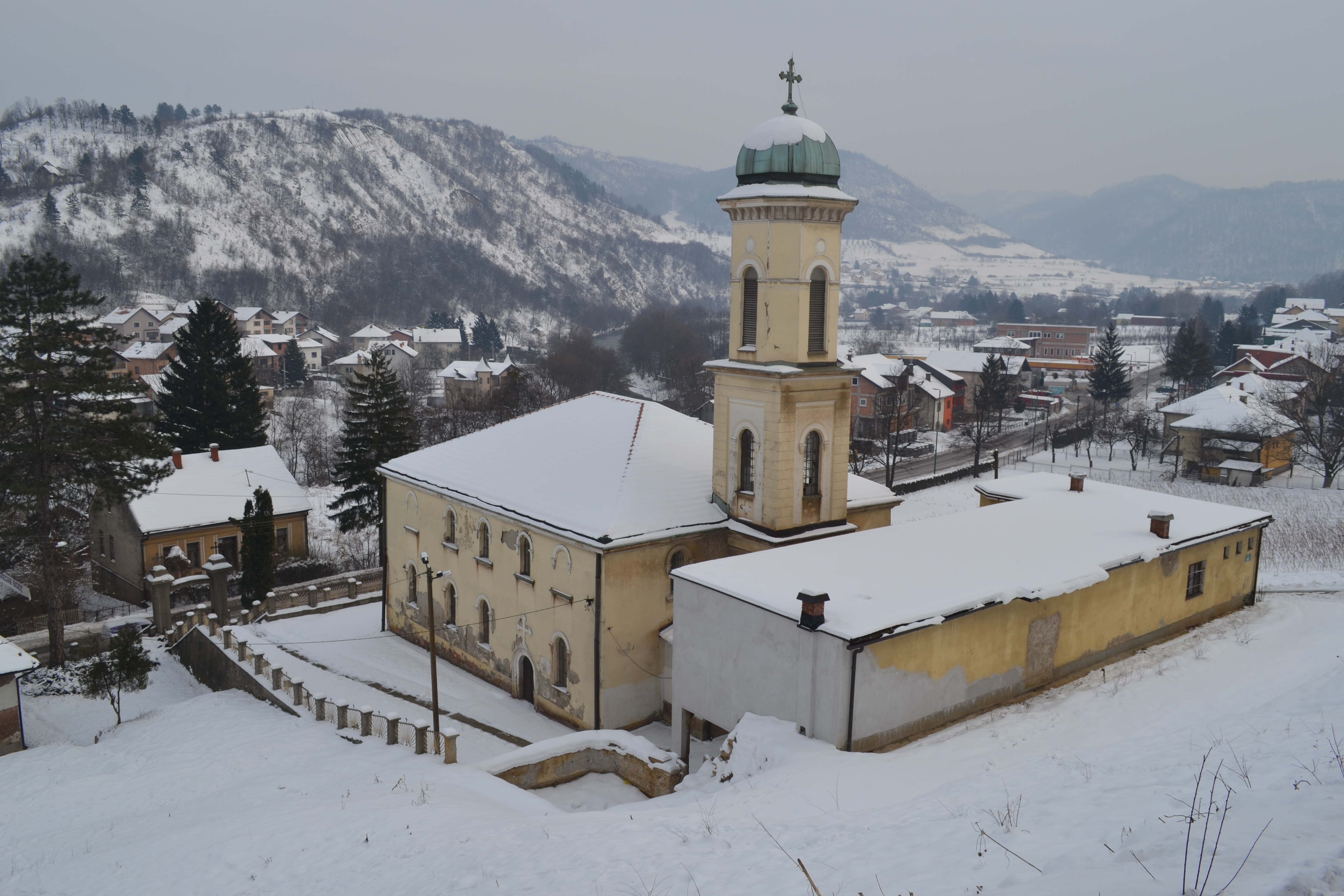 The Serbian Orthodox church of St. Procopius in Visoko, Bosnia and Herzegovina